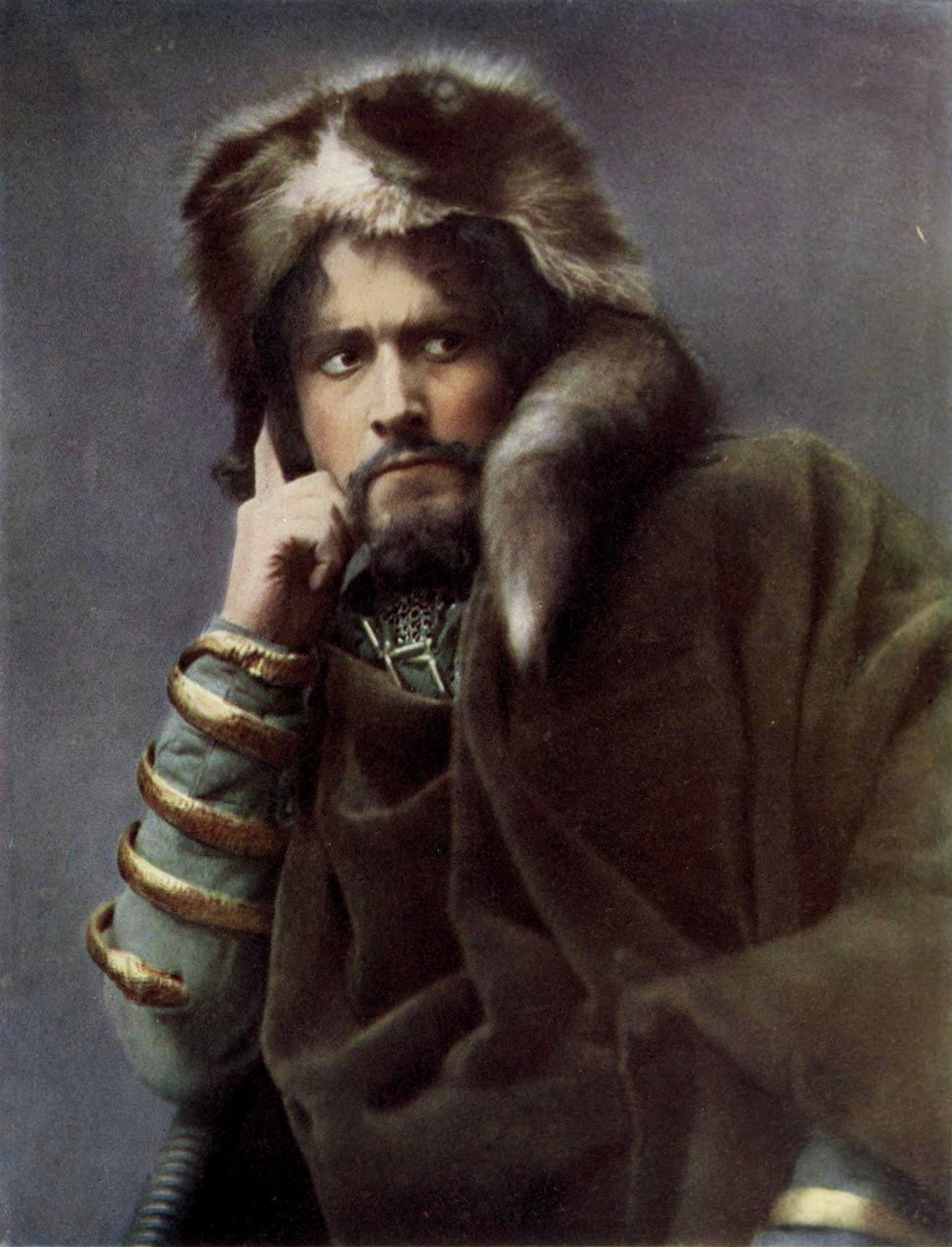 Actress Robert Taber as Macduff in Shakespeare's Macbeth